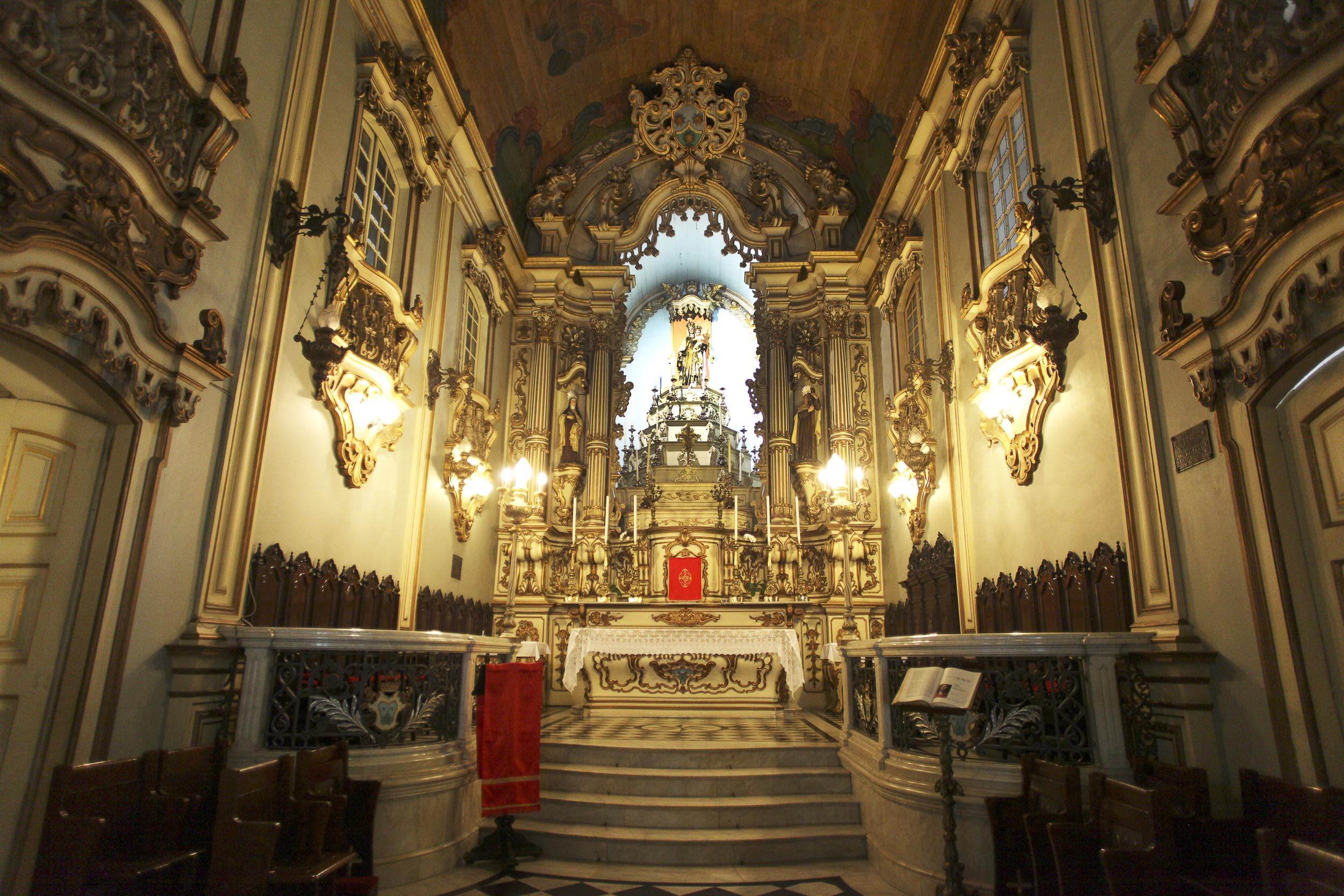 Altar and internal views of the Church of the Carmelite Third Order in the central region of São Paulo, near the squares of the Sé, João Mendes and Clovis Bevilacqua. It was established in the second half of Sec.XVII and subsequently demolished early secXVIII. The present church is 1758 and its Construction Builder is rammed earth. The Carmelite church houses a set of São Paulo colonial art, especially the paintings of the chancel and the choir ceilings, authored by Itu master Frei Jesuíno of Mount Carmel